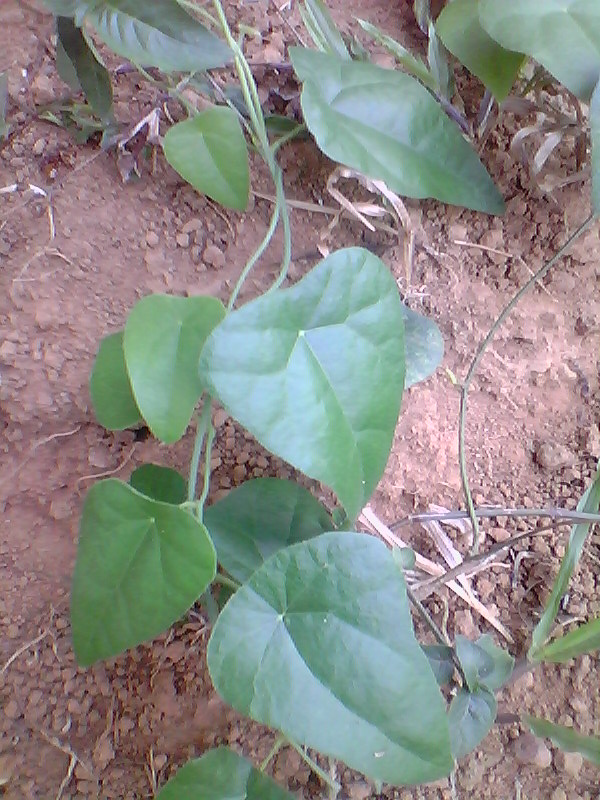 A paadakkizhangu plant (Cyclea peltata) from Kerala, India.